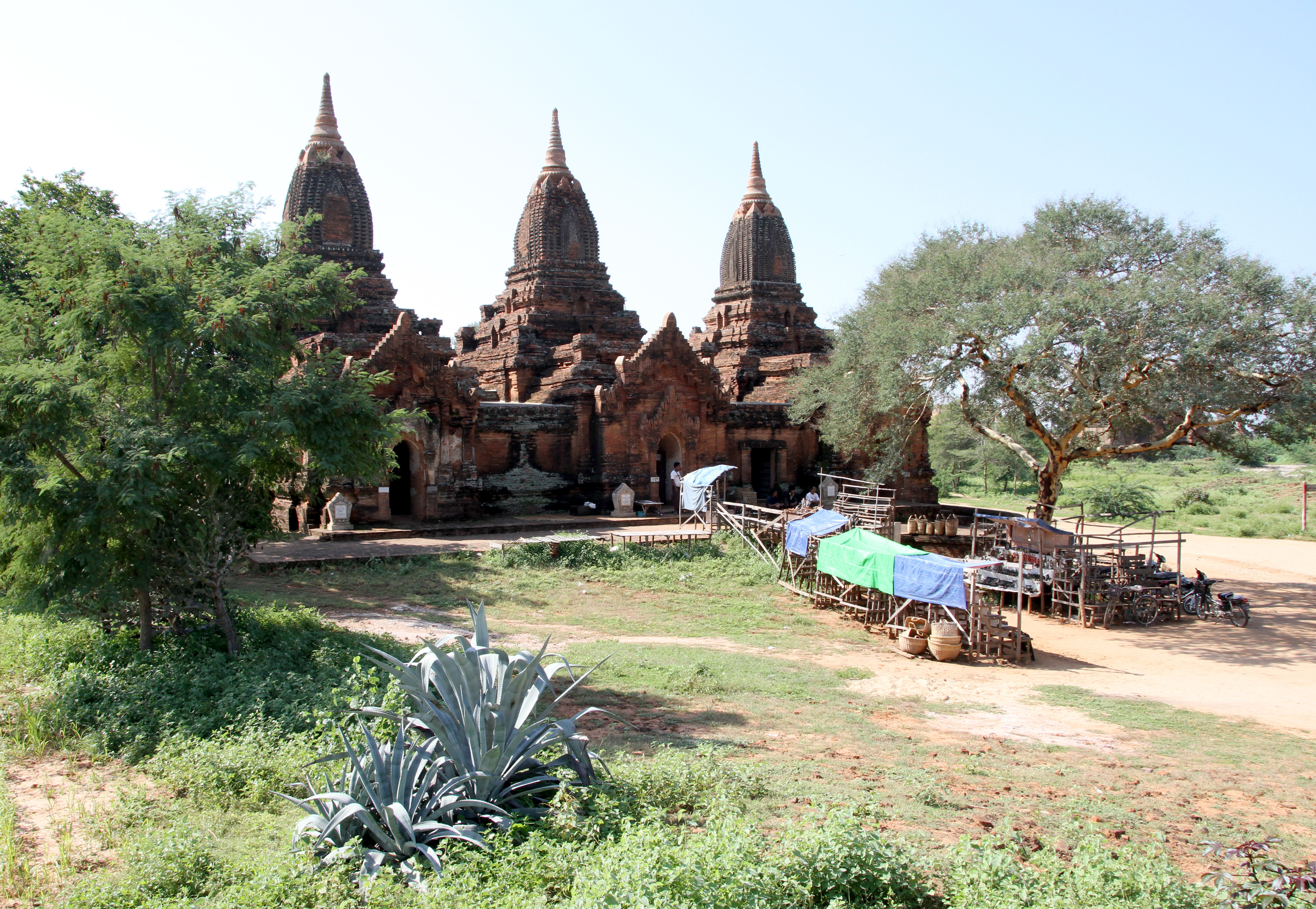 Payathonzu temple in Bagan in Myanmar.